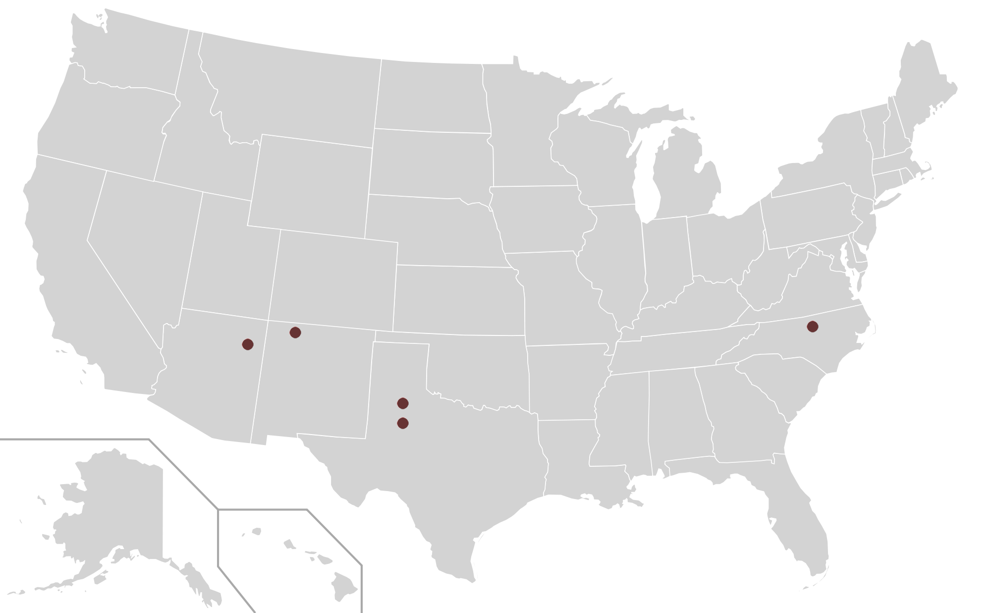 A blank map of the United States showing locations of Postosuchus fossil discoveries.